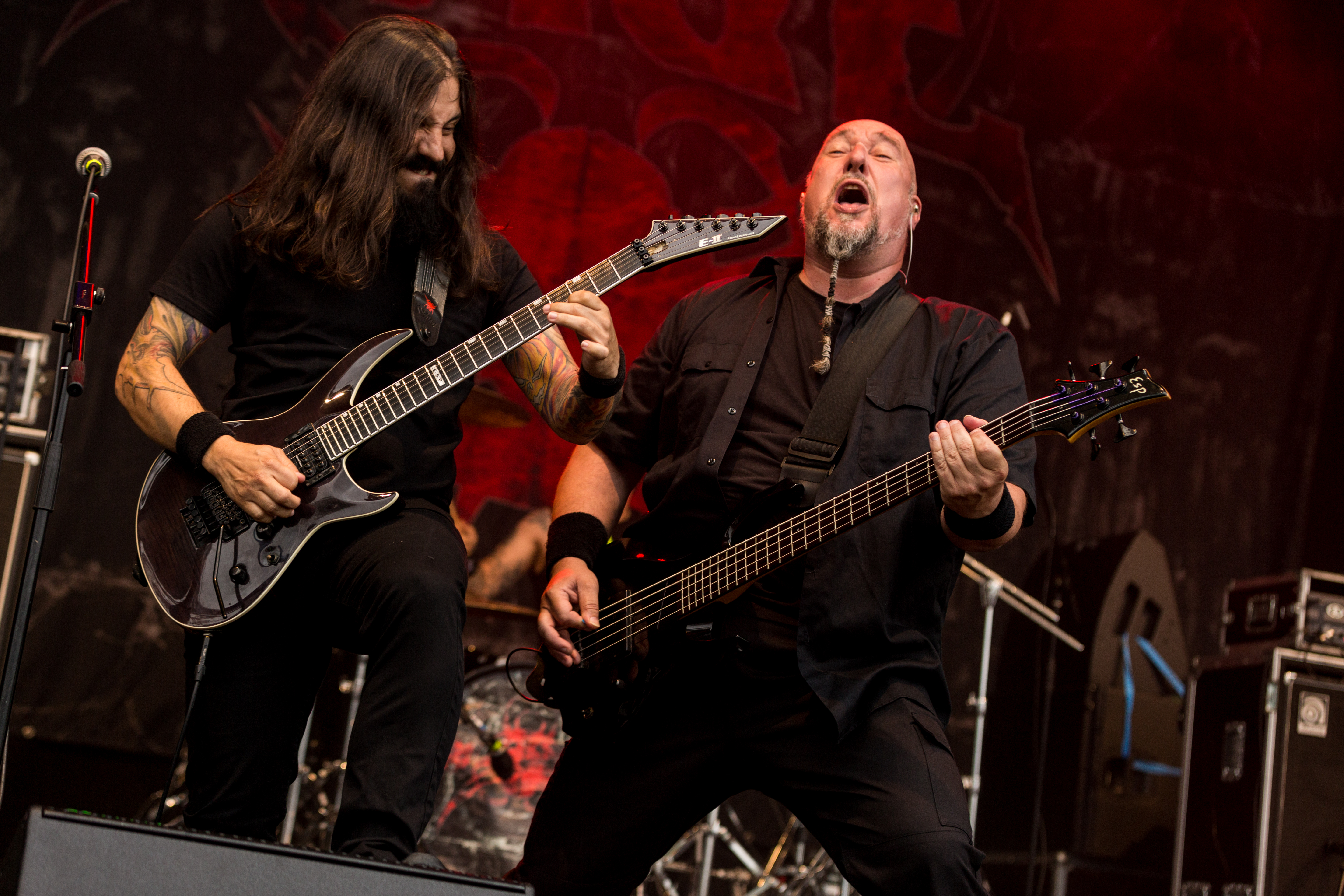 The German heavy metal band Rage at the Metal Frenzy 2017 in Gardelegen/Germany.